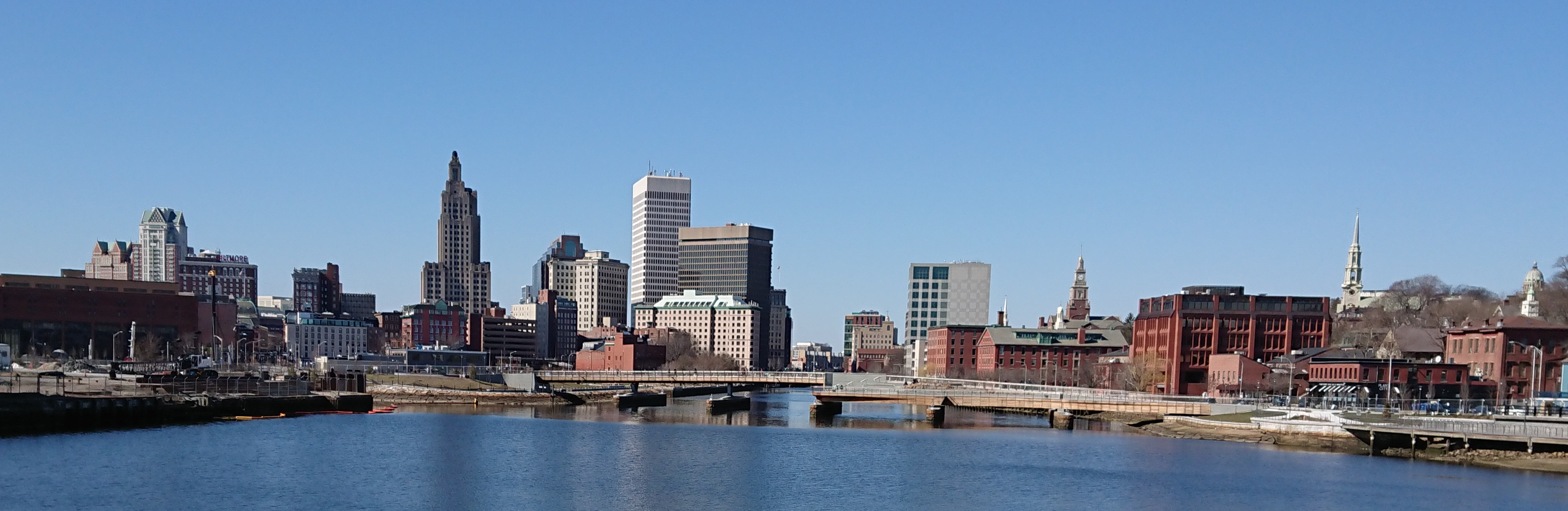 Providence River Pedestrian and Bicycle Bridge viewed from the Point Street Bridge over the Providence River in Providence, Rhode Island